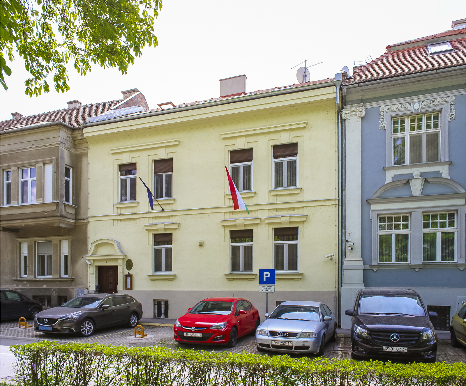 Hungarian Consulate